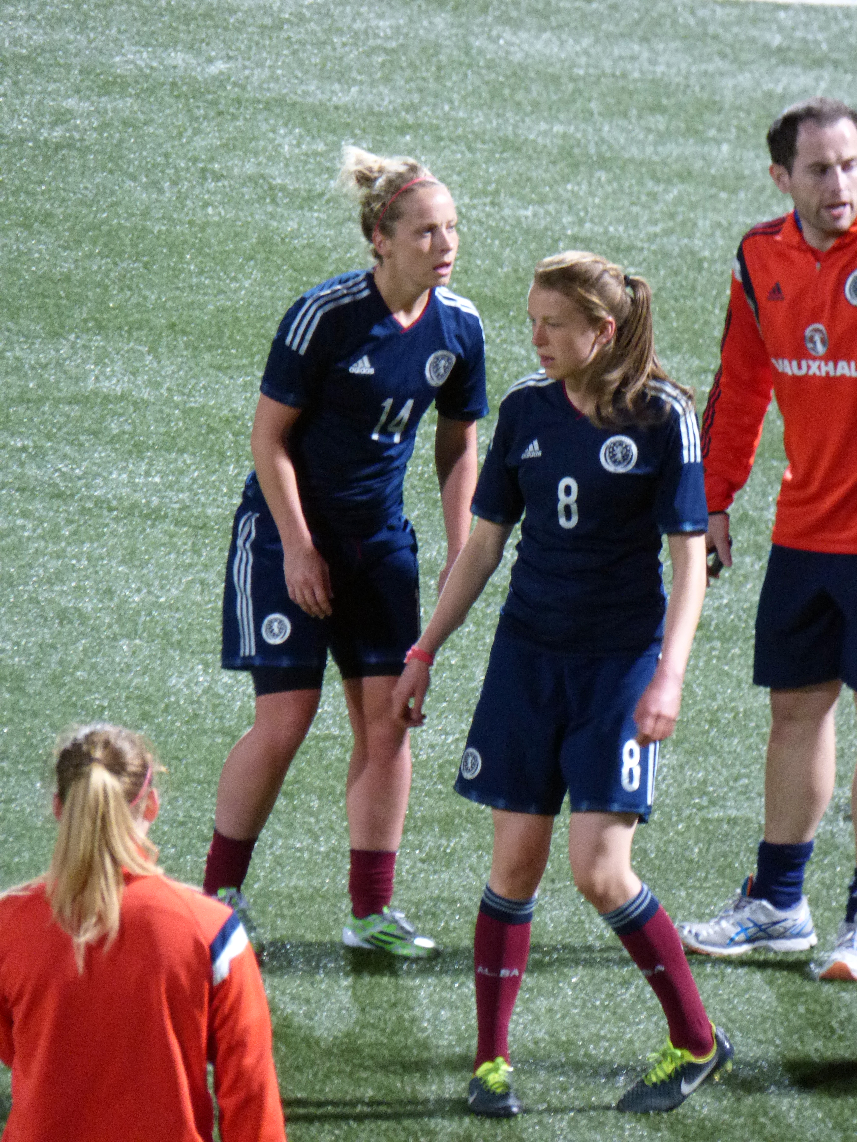 Scottish footballers Joelle Murray (14) and Lizzie Arnot (8)